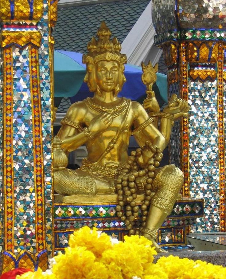 Four-faced Brahma statue Phra Phrom at the Erawan Shrine, Bangkok, Thailand. (unfortunately left and right have been reversed)